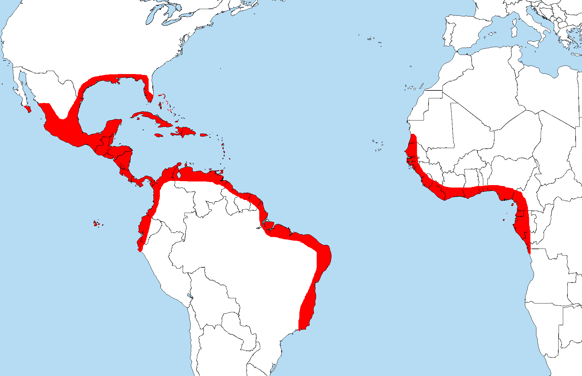 Distribution of Avicennia germinans